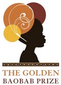 Logo of The Golden Baobab Prize